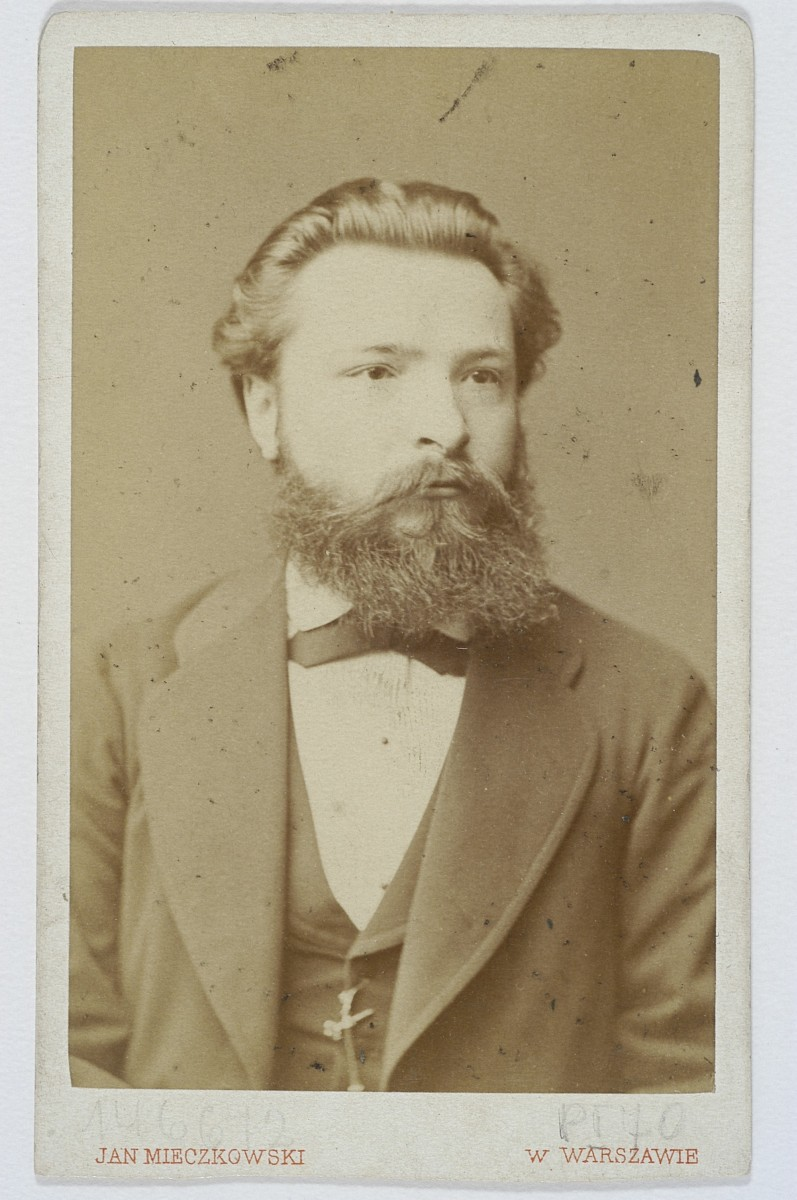 Julian Ochorowicz